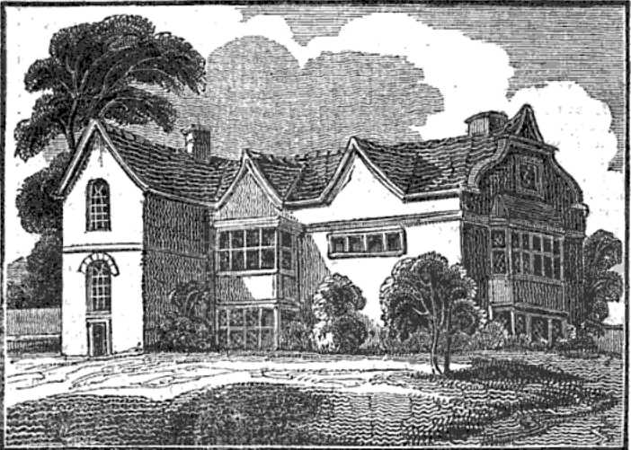 A picture allegedly of the house Howard was supposedly born in.